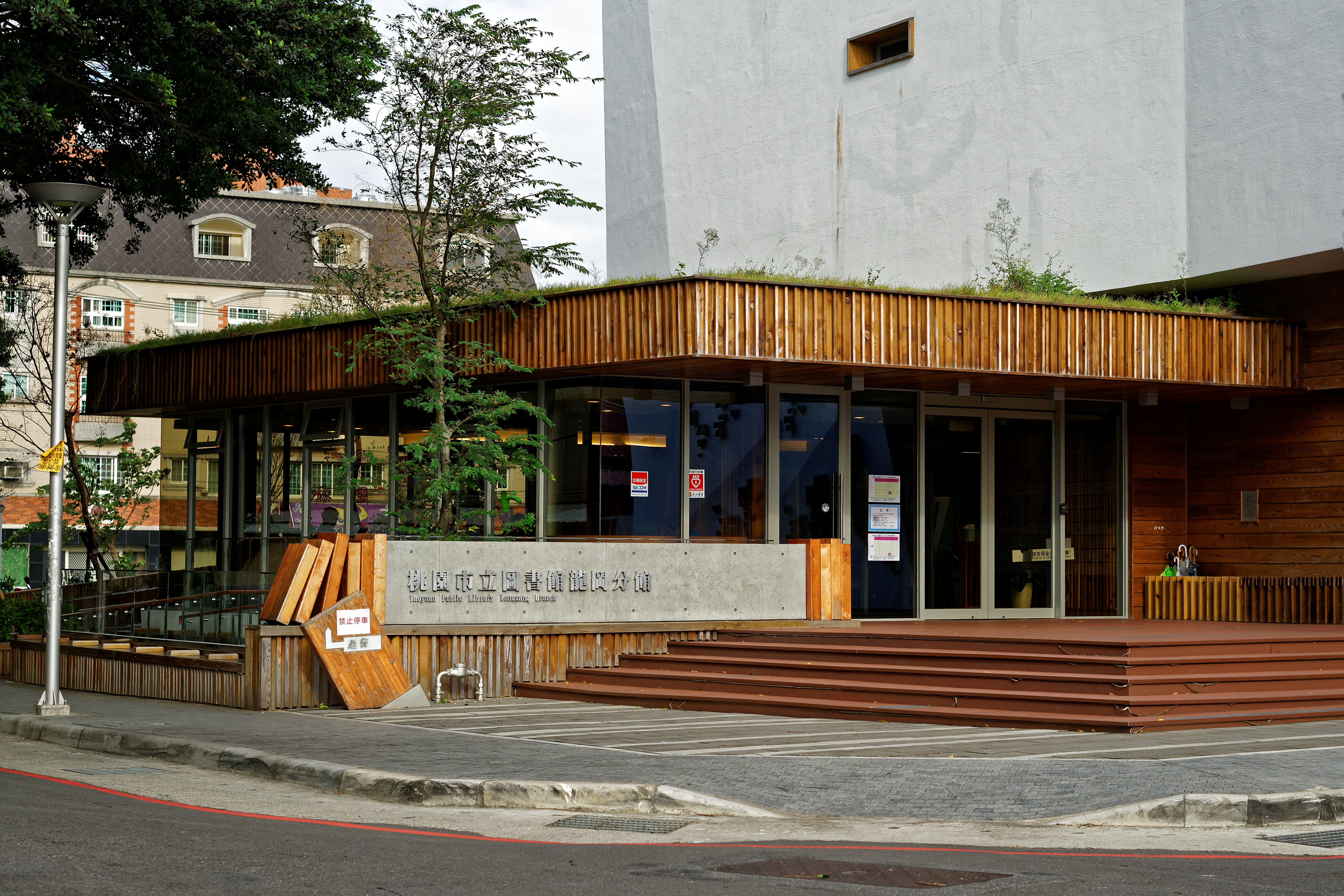 Taoyuan City Library Lunggang Branch main entrance.